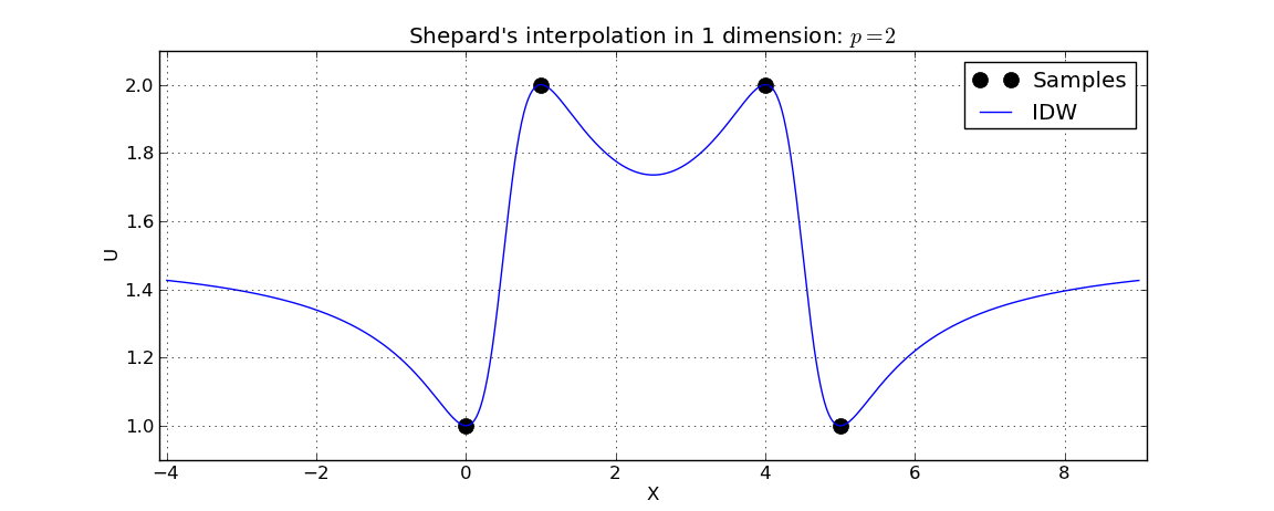 This is a result from the shepard method applied to a 1 dimension function.